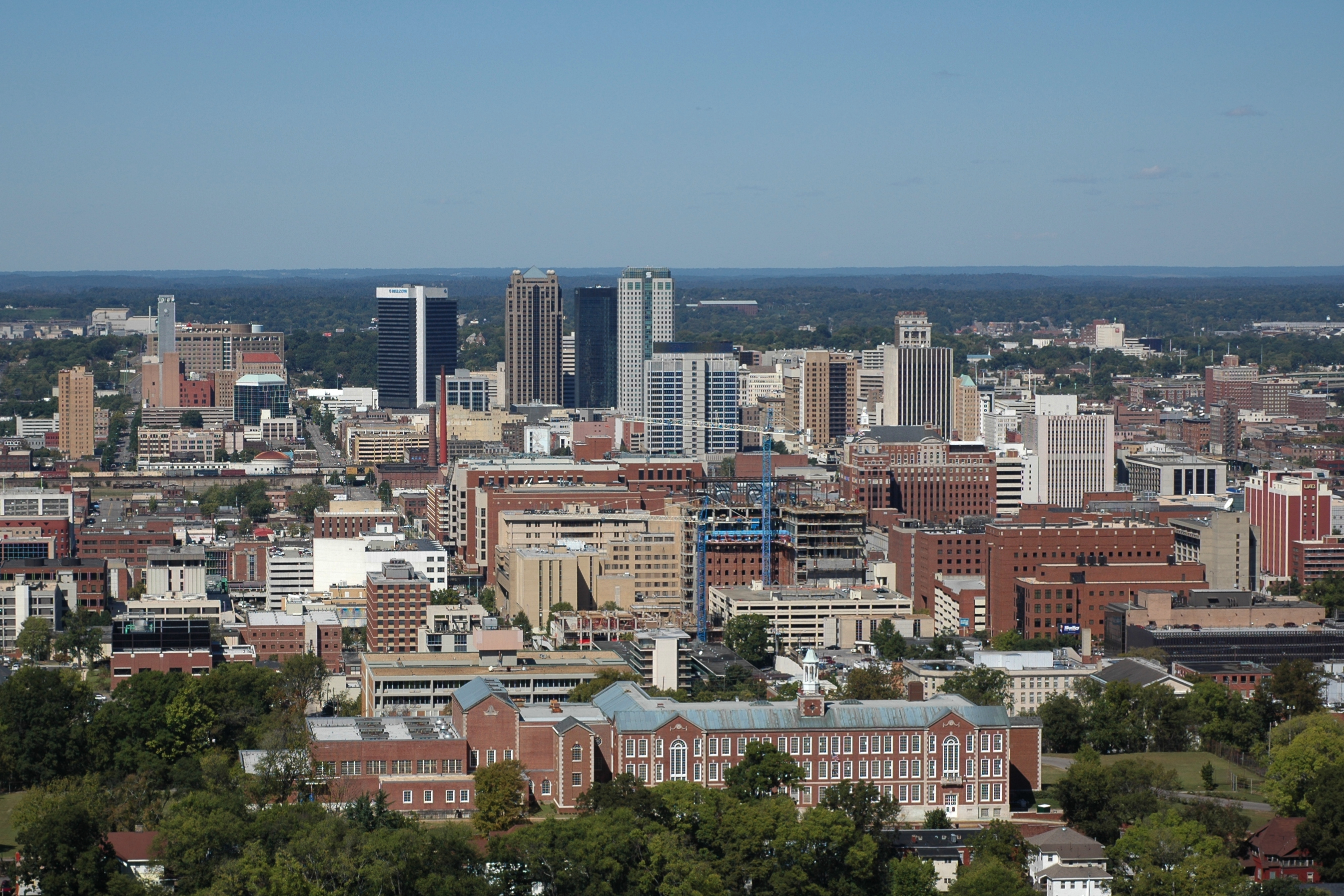 Birmingham, Alabama Skyline as seen from Red Mountain